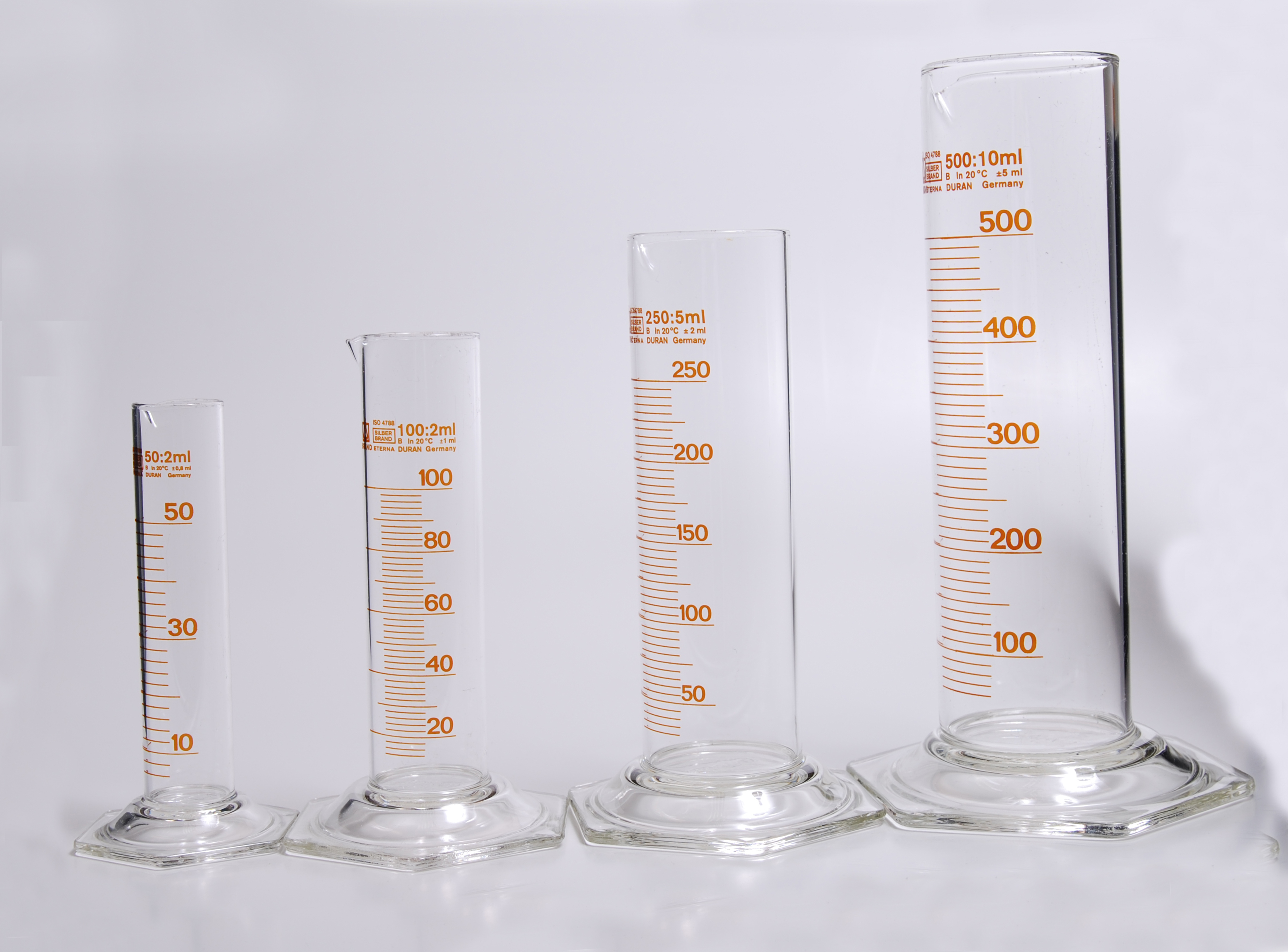 Set of glass graduated cylinders from 50 to 500ml